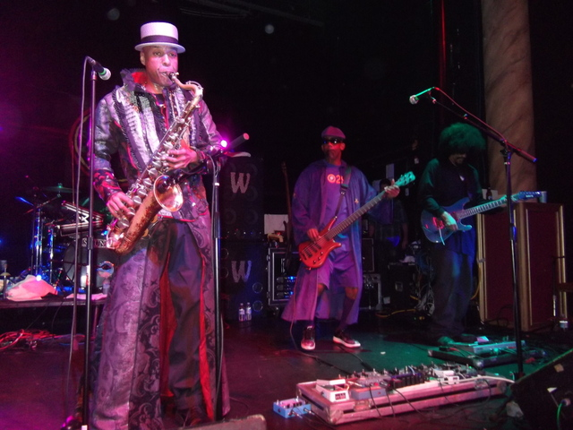 Fishbone performing live in December 2010.